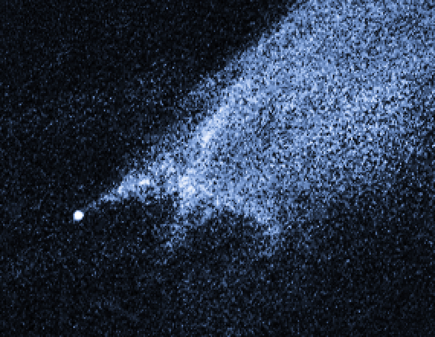 Hubble Telescope image of Comet-like Asteroid P/2010 A2.